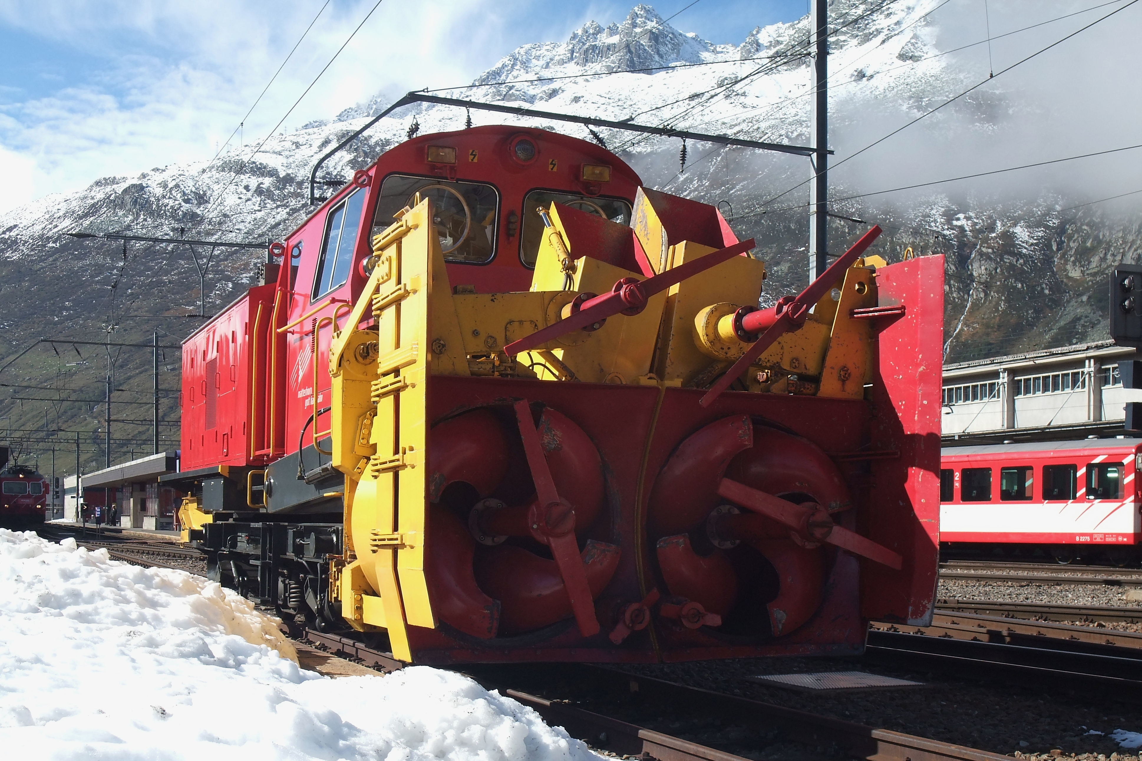 The snowblower is ready at the station, towards Oberalp Pass. Probably the first line where it is needed. Switzerland, Oct 16, 2013.